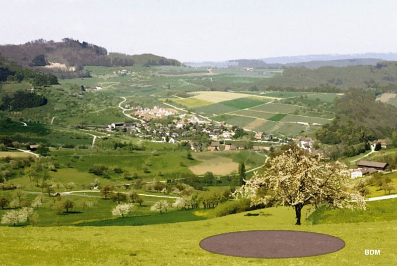 Swiss Biodiversity Monitoring, Habitats sampling area (Z9)